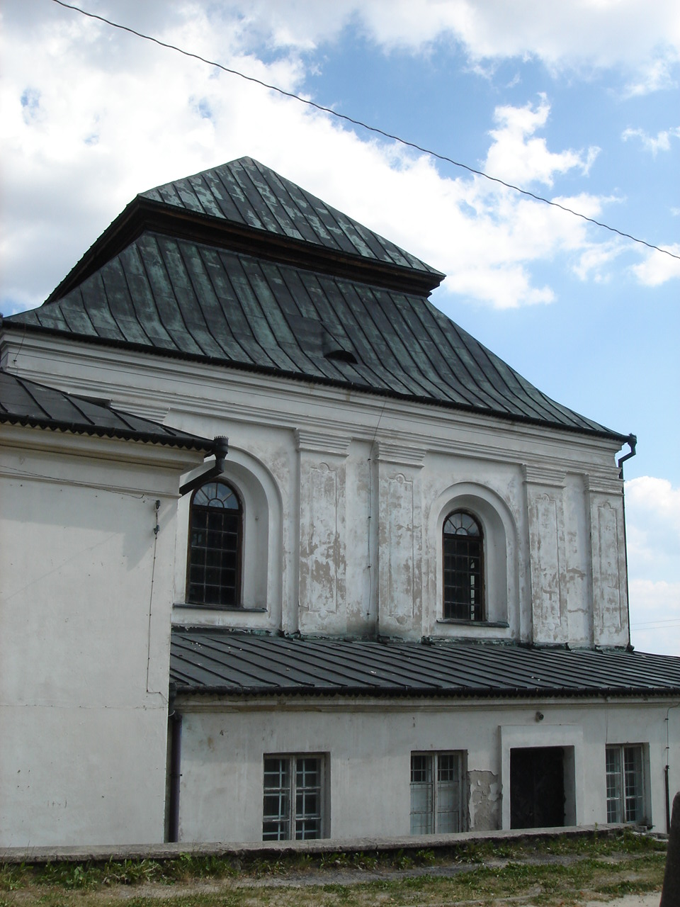 Synagogue in Szczebrzeszyn, nowadays community centre